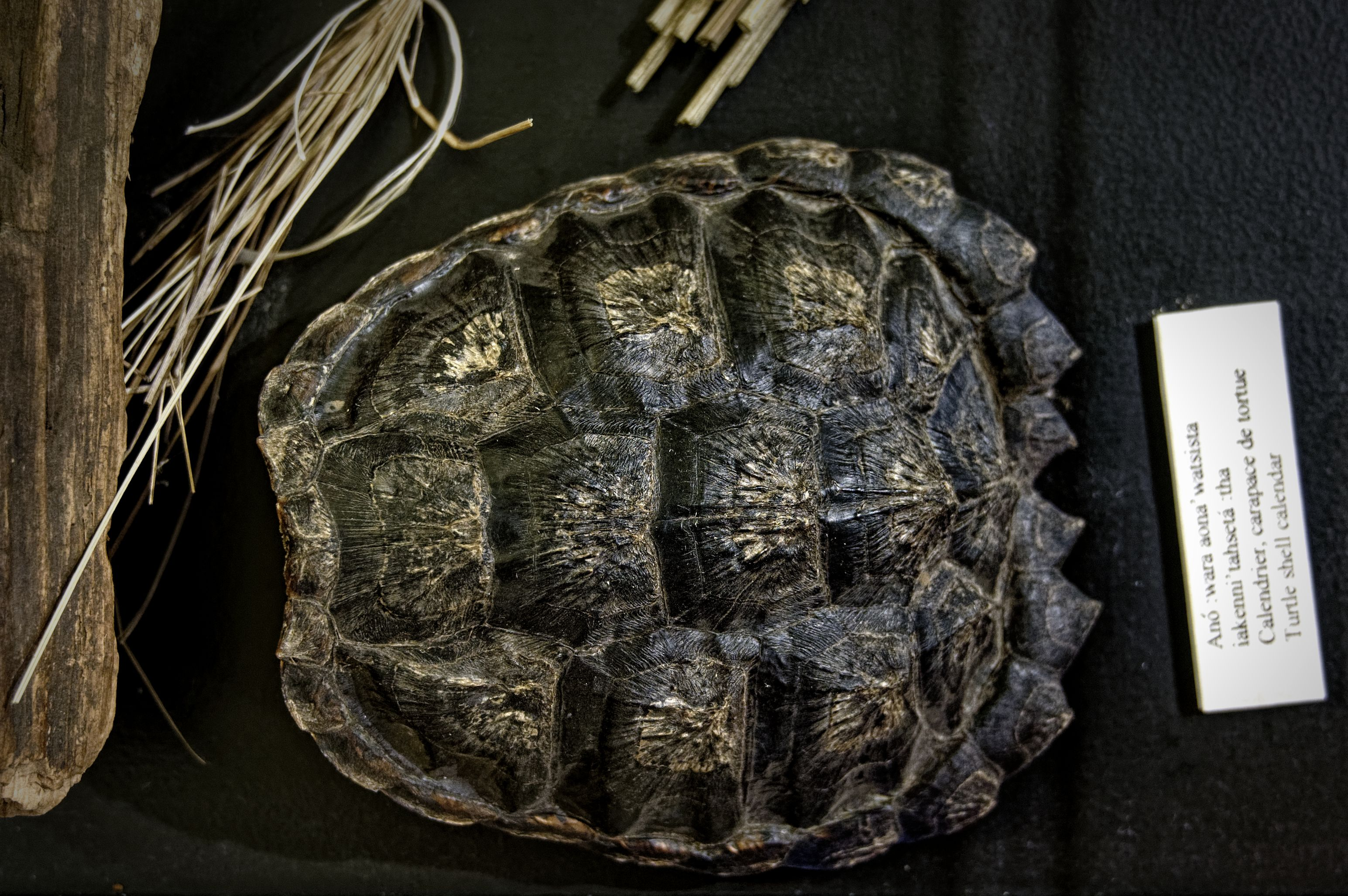 Turtle shell calendar (Iroquoian). The centre has 13 scales representing the lunar months and the periphery has 28 small scales representing the days of the month. Droulers-Tsiionhiakwatha archaeological site (2020).